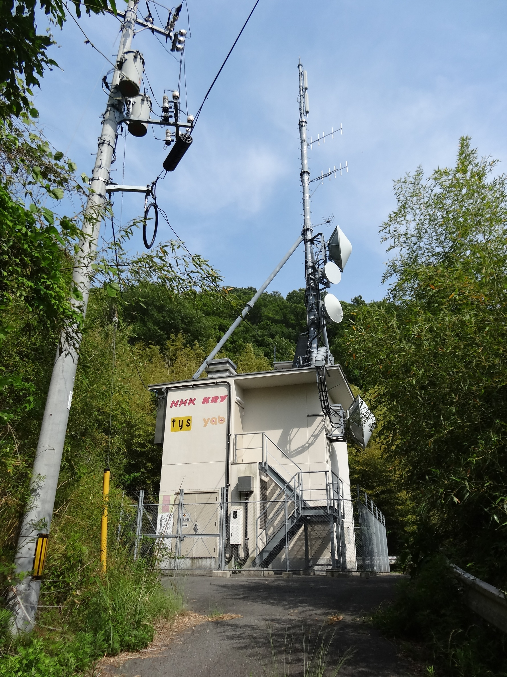 Iwakuni Digital TV Transmitting Station, is in Etajima City, Hiroshima Prefecture, Japan.